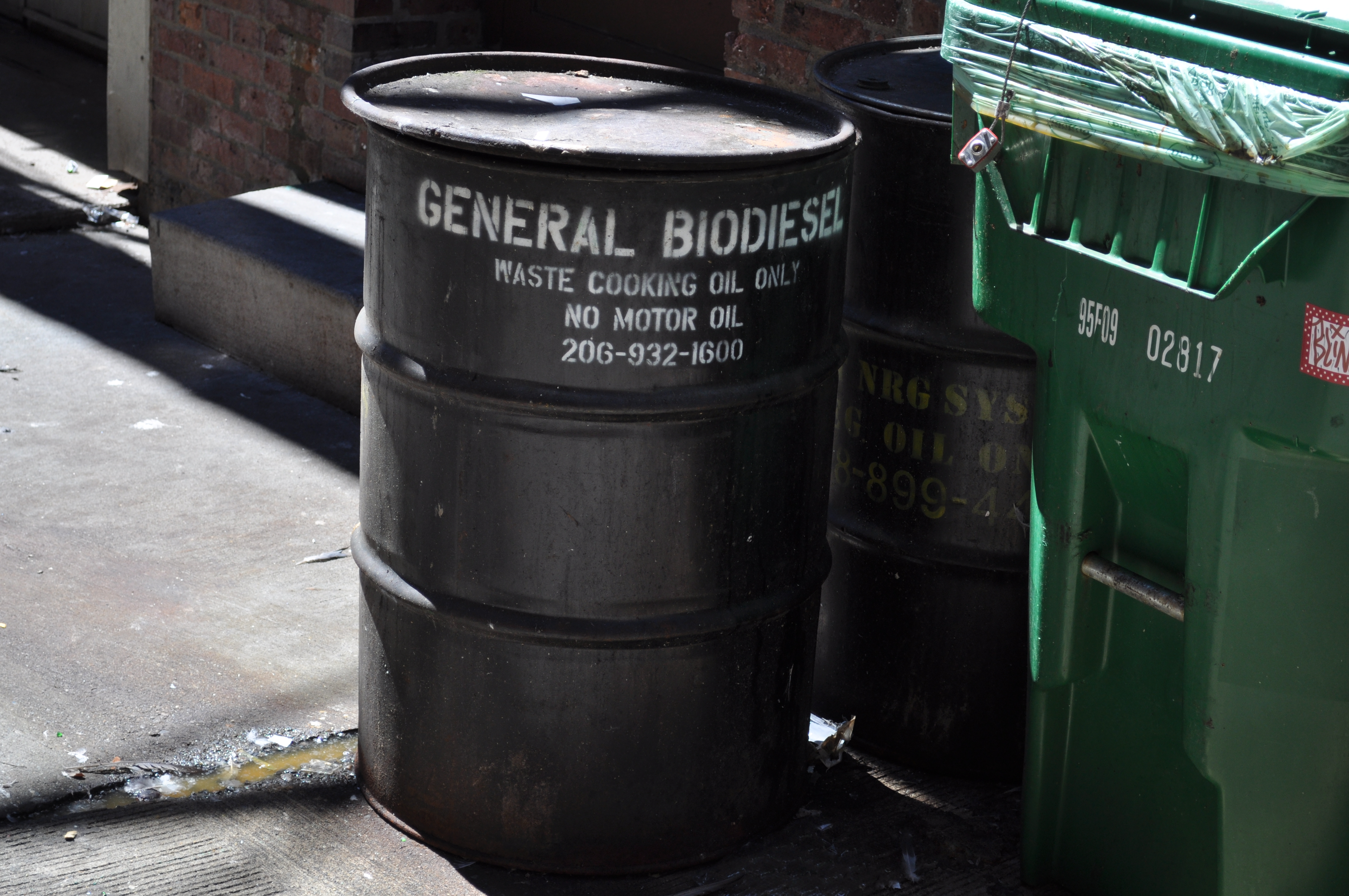 A can for the collection of used cooking oil as an input to making biodiesel. Maynard Alley, International District, Seattle, Washington.